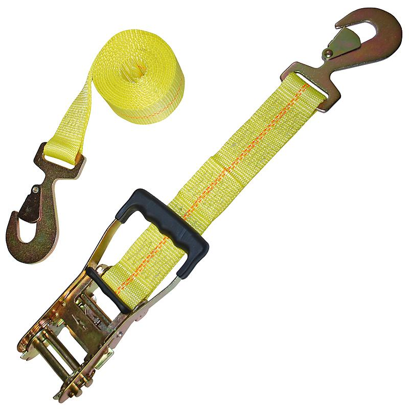 A custom made tie down strap with a ratchet attachment used for securing cargo loads.